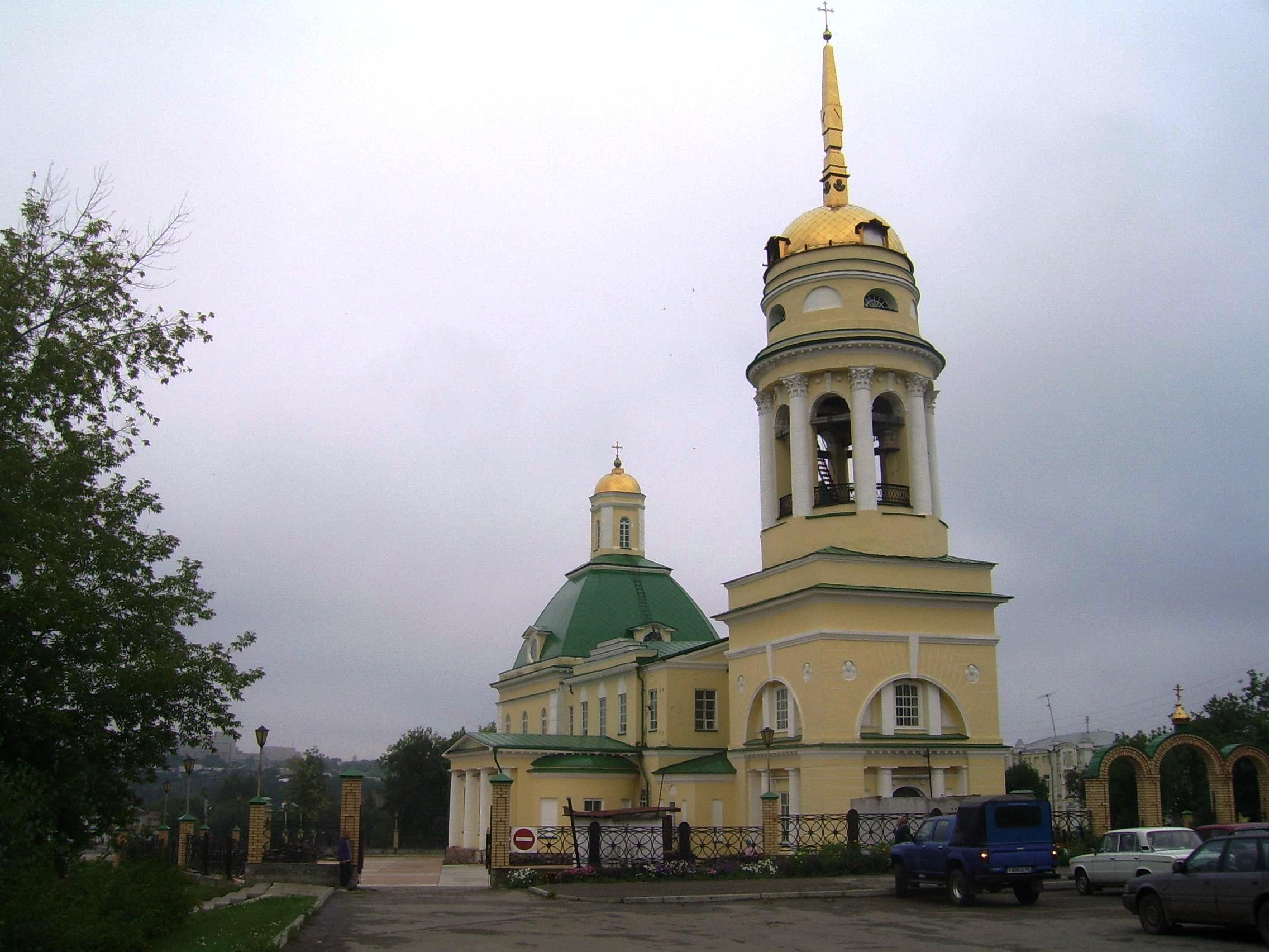 Holy Trinity Cathedral in Kamensk-Uralsky, Sverdlovsk Oblast.